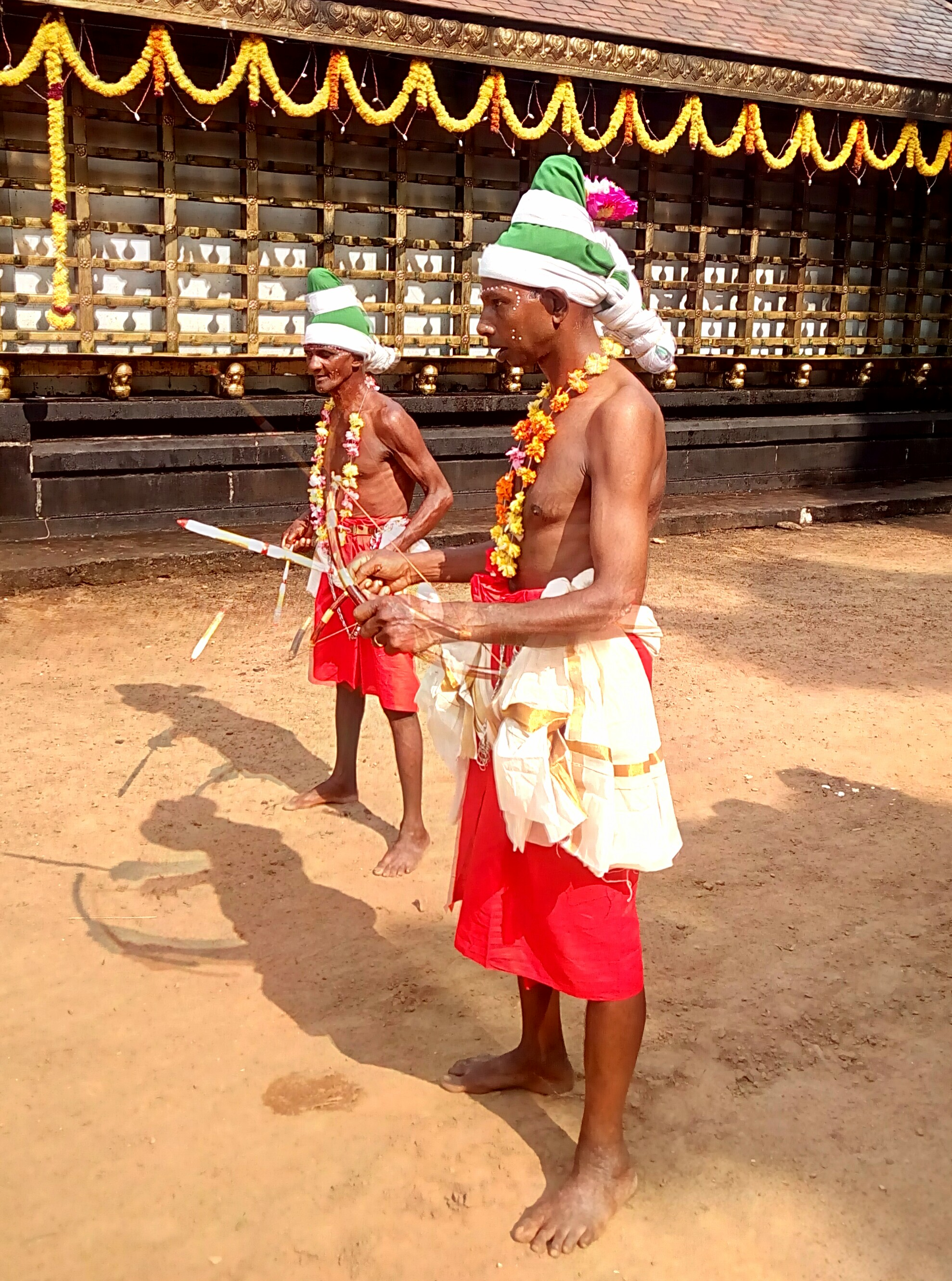 Garudan Thookam Participants in their traditional costume